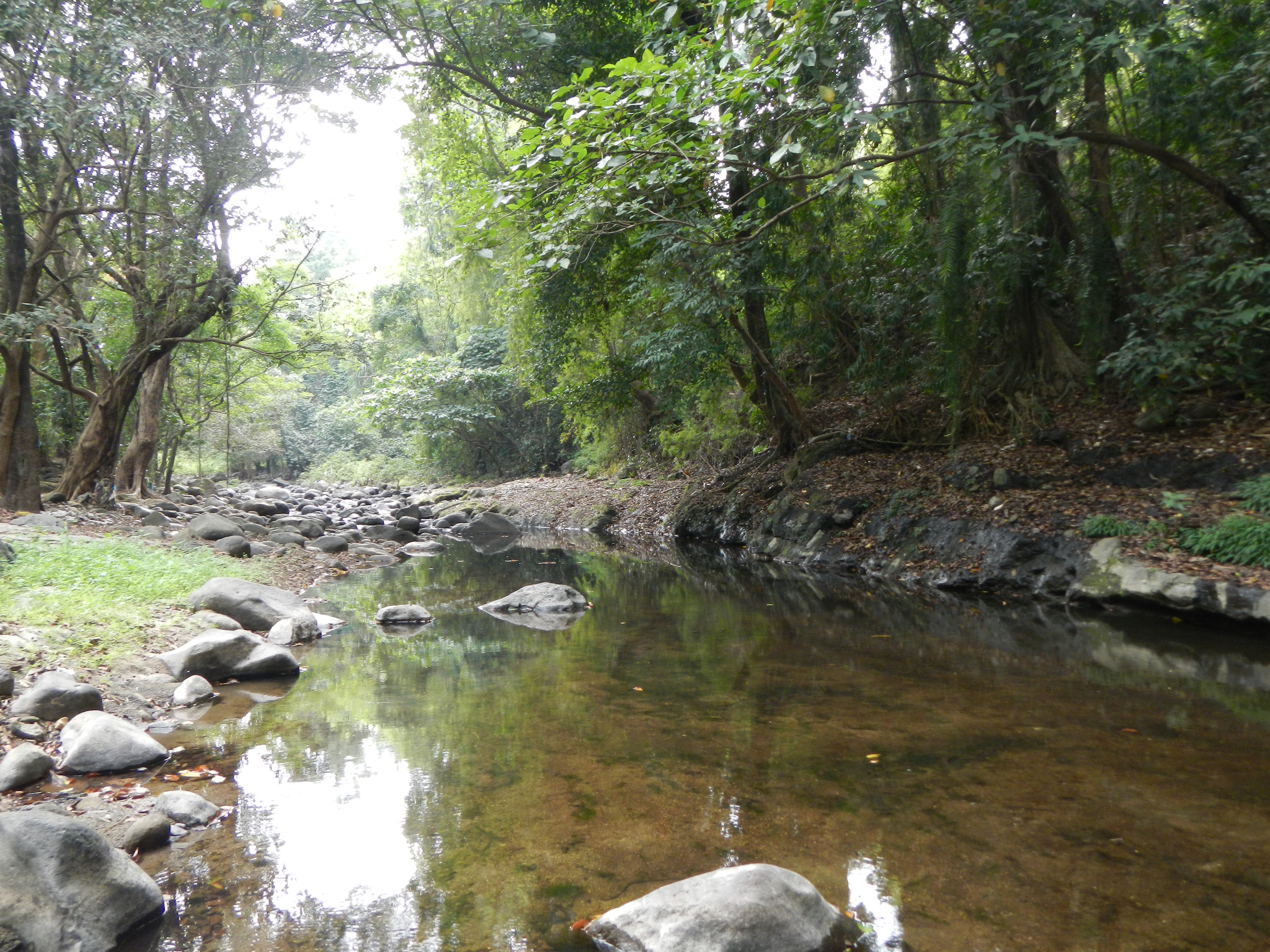 Dinalupihan, Bataan[1][2] Roosevelt Park, site of Enchanted Garden TV series